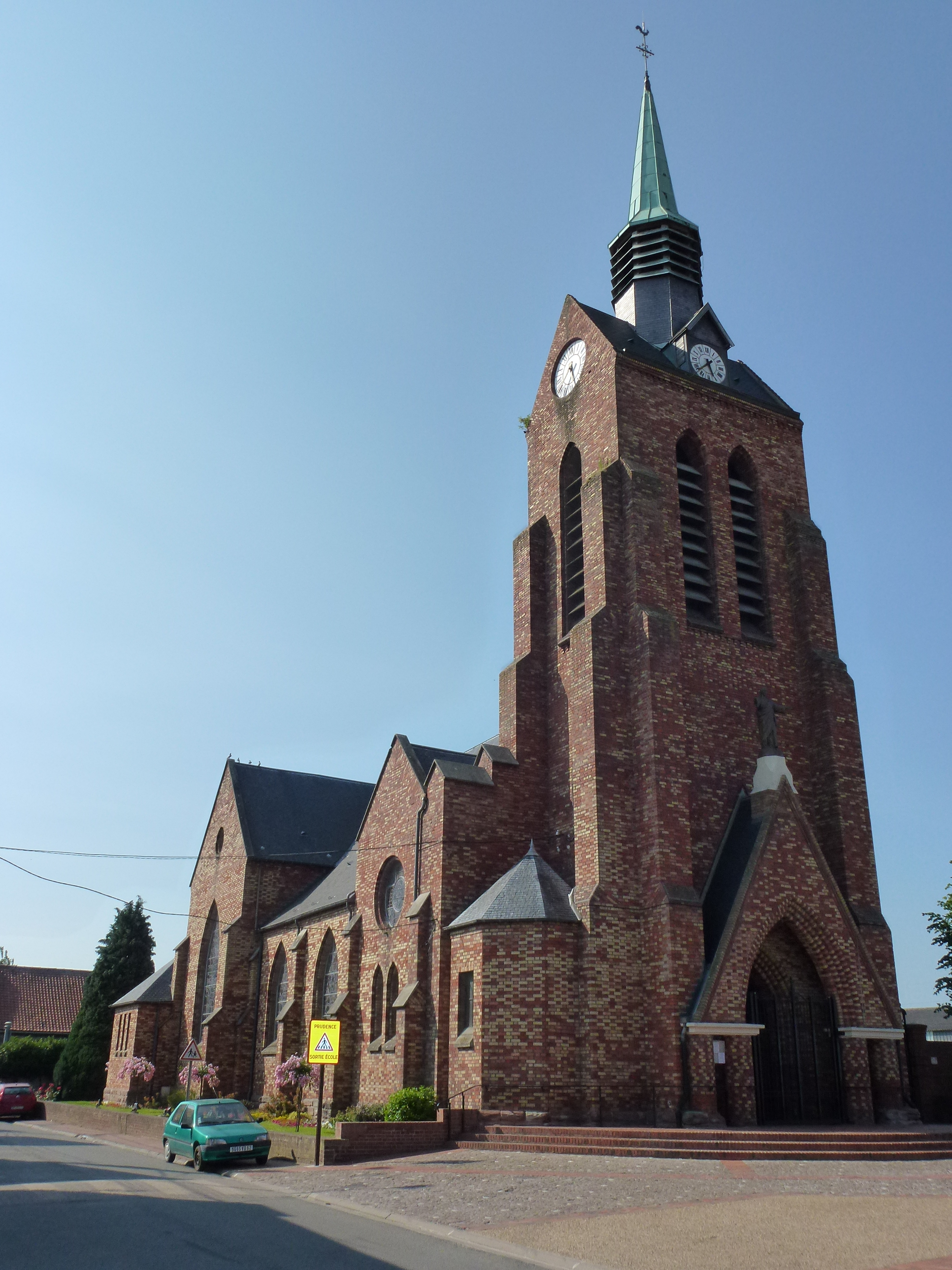 Noyelles-Godault (Pas-de-Calais) église